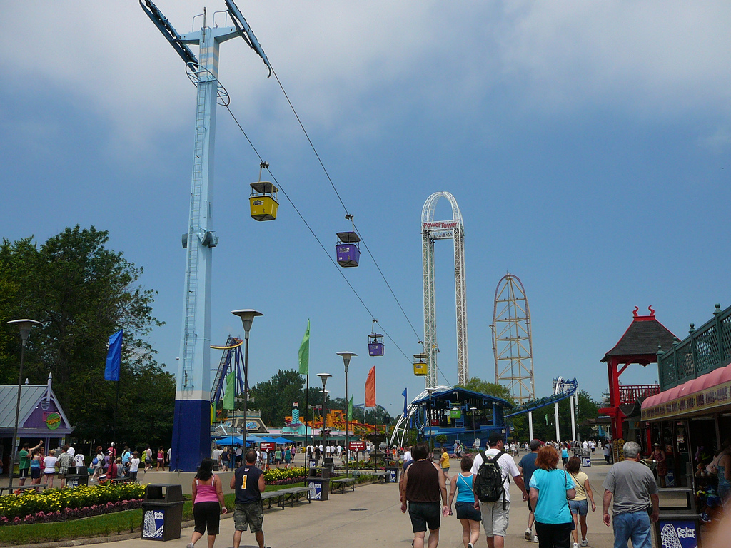 View of Sky Ride, Power Tower and Top Thrill Dragster from the main midway at Cedar Point.